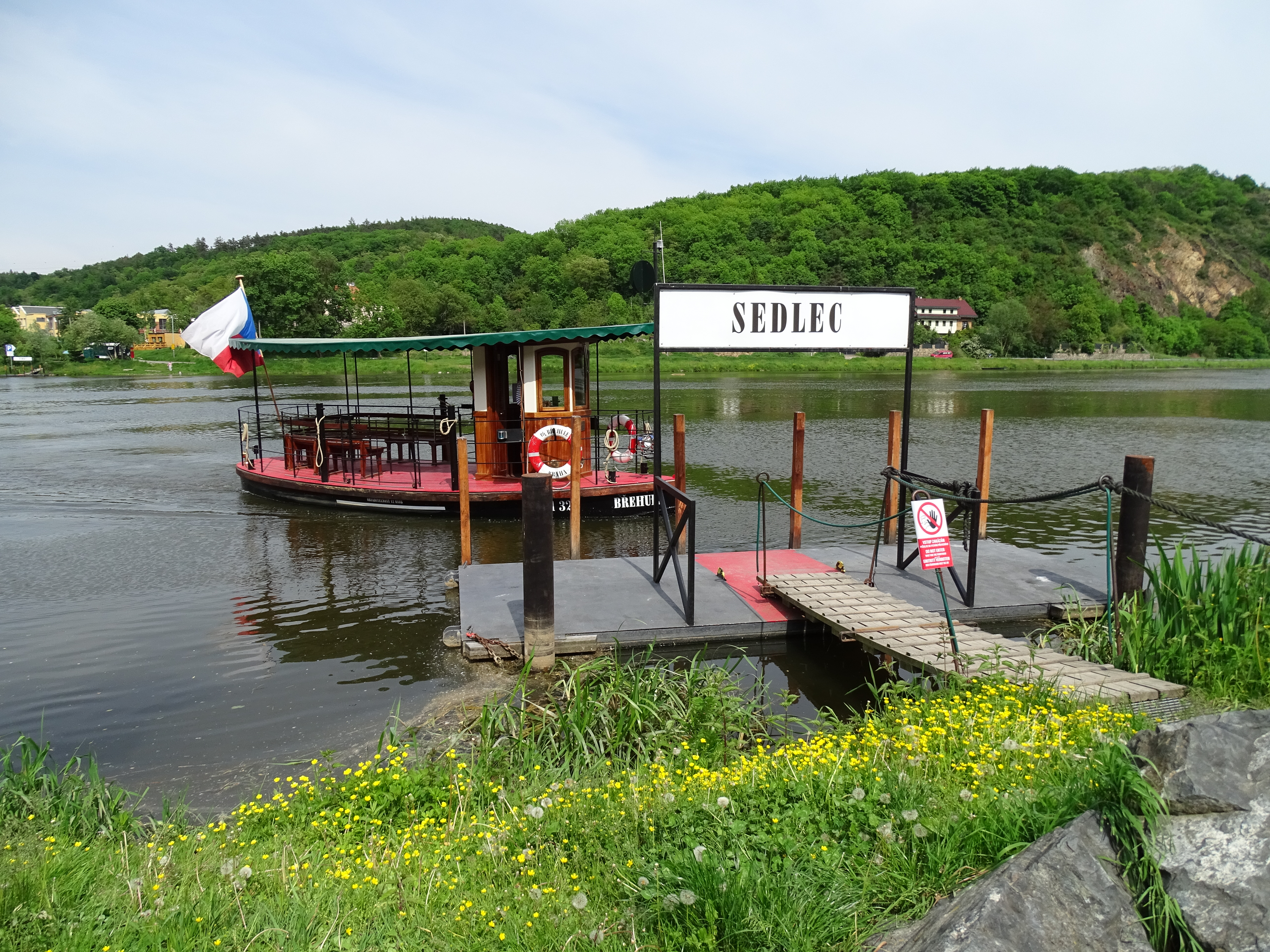 Prague-Sedlec, Czechia, Vltava ferry, Břehule boat.